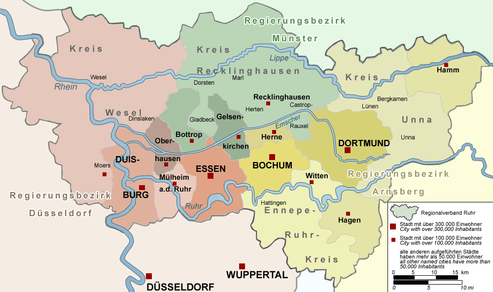 Map of the administration of the Ruhr area, Germany – The map shows the administration (Regierungsbezirke, cities/districts, Regionalverband Ruhr and all cities with more than 50,000 inhabitants) of the Ruhr Area, Germany.